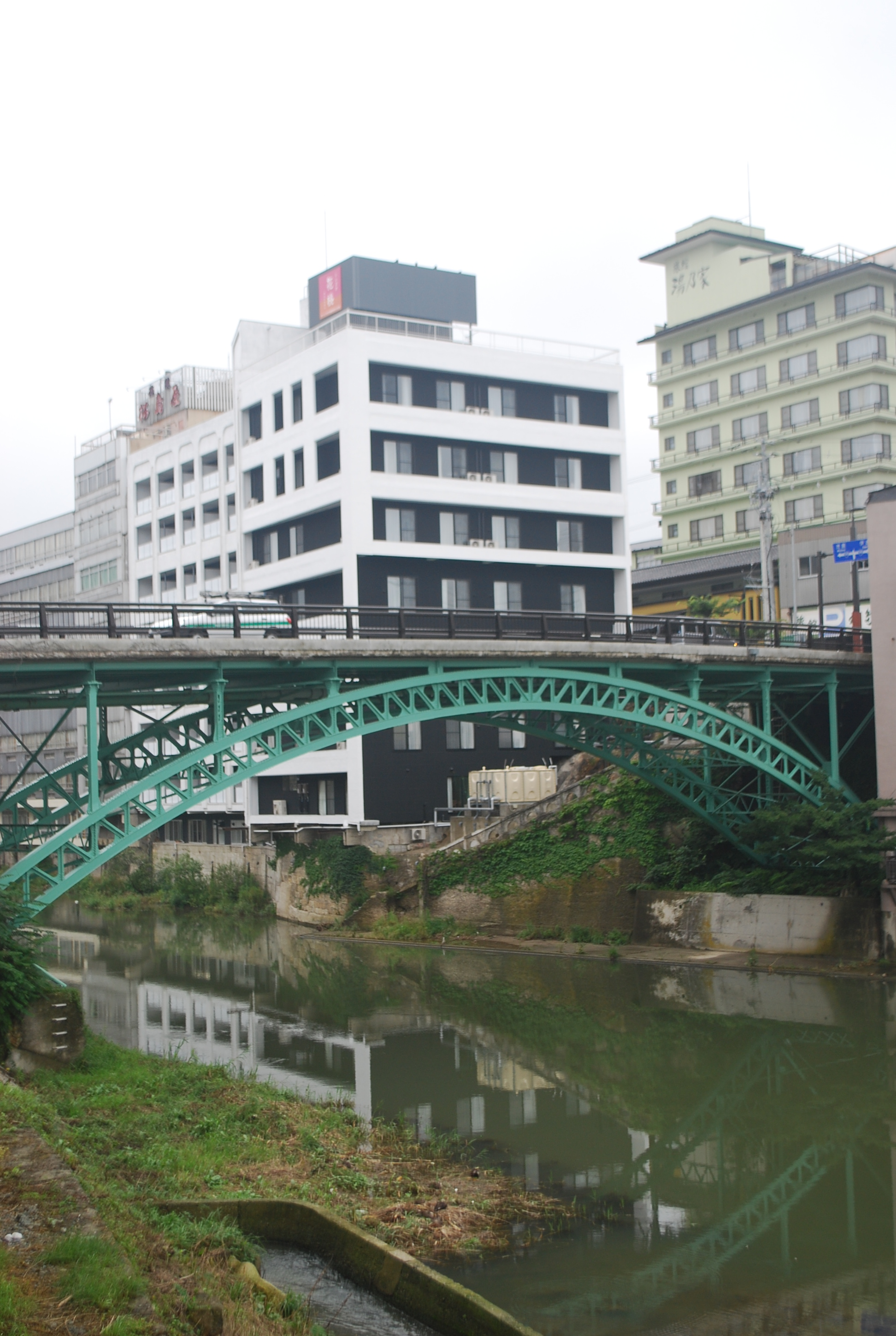 Totsuna-bridge,Iizaka-spa,Fukusima-city,Japan